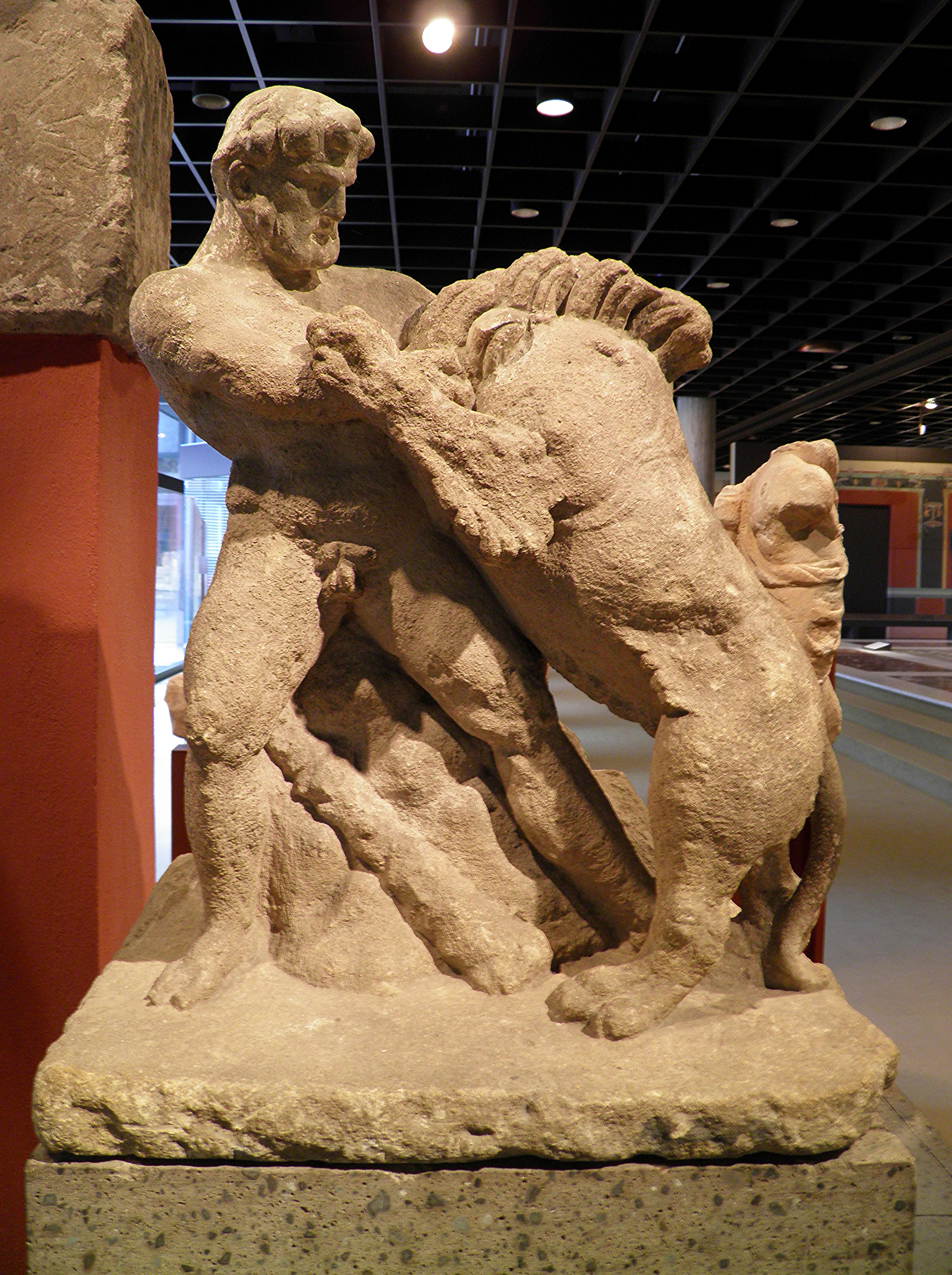 Fragment of a funerary monument, Hercules vanquishing the Nemean lion, a symbol of man's victory over evil, Romisch-Germanisches Museum, Cologne